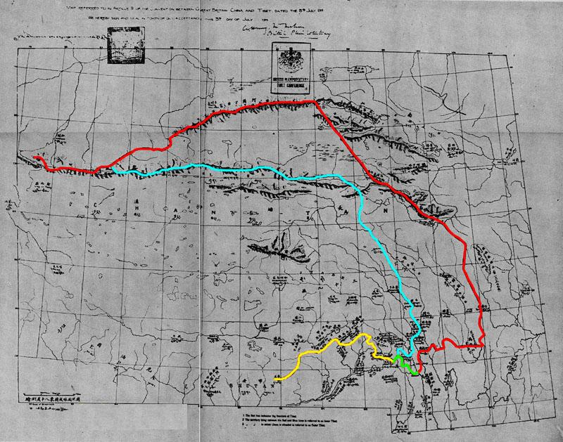 Simla Accord Treaty 1914 Map